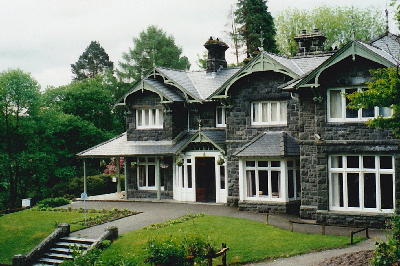 Photograph of Aberglaslyn Hall